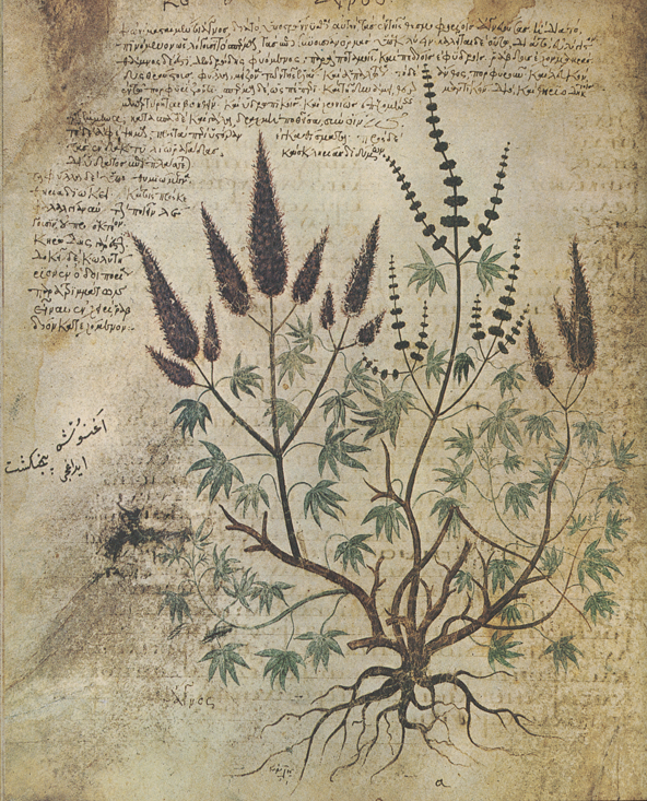 Agnos folio 36v